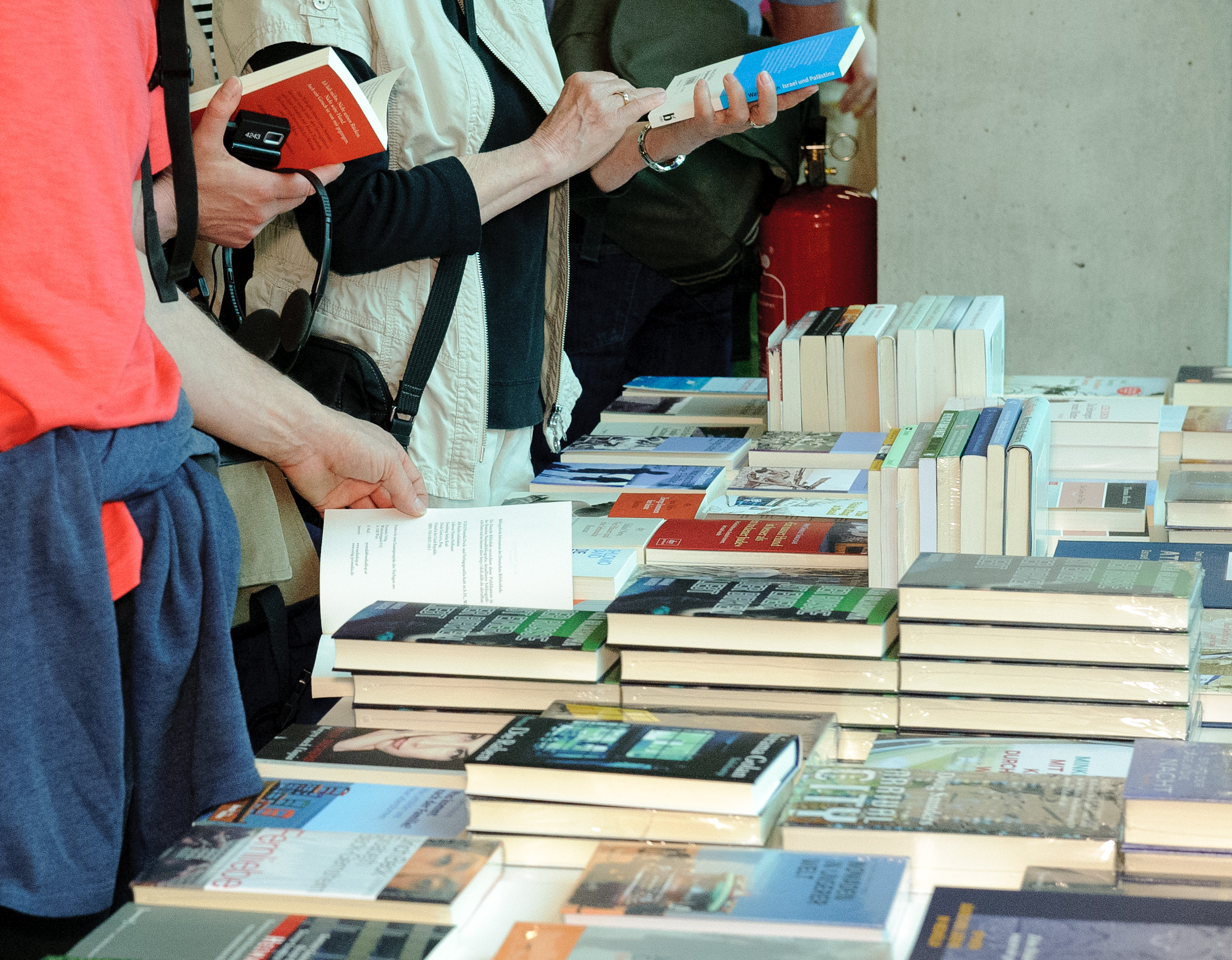 Foto: Stephan Roehl